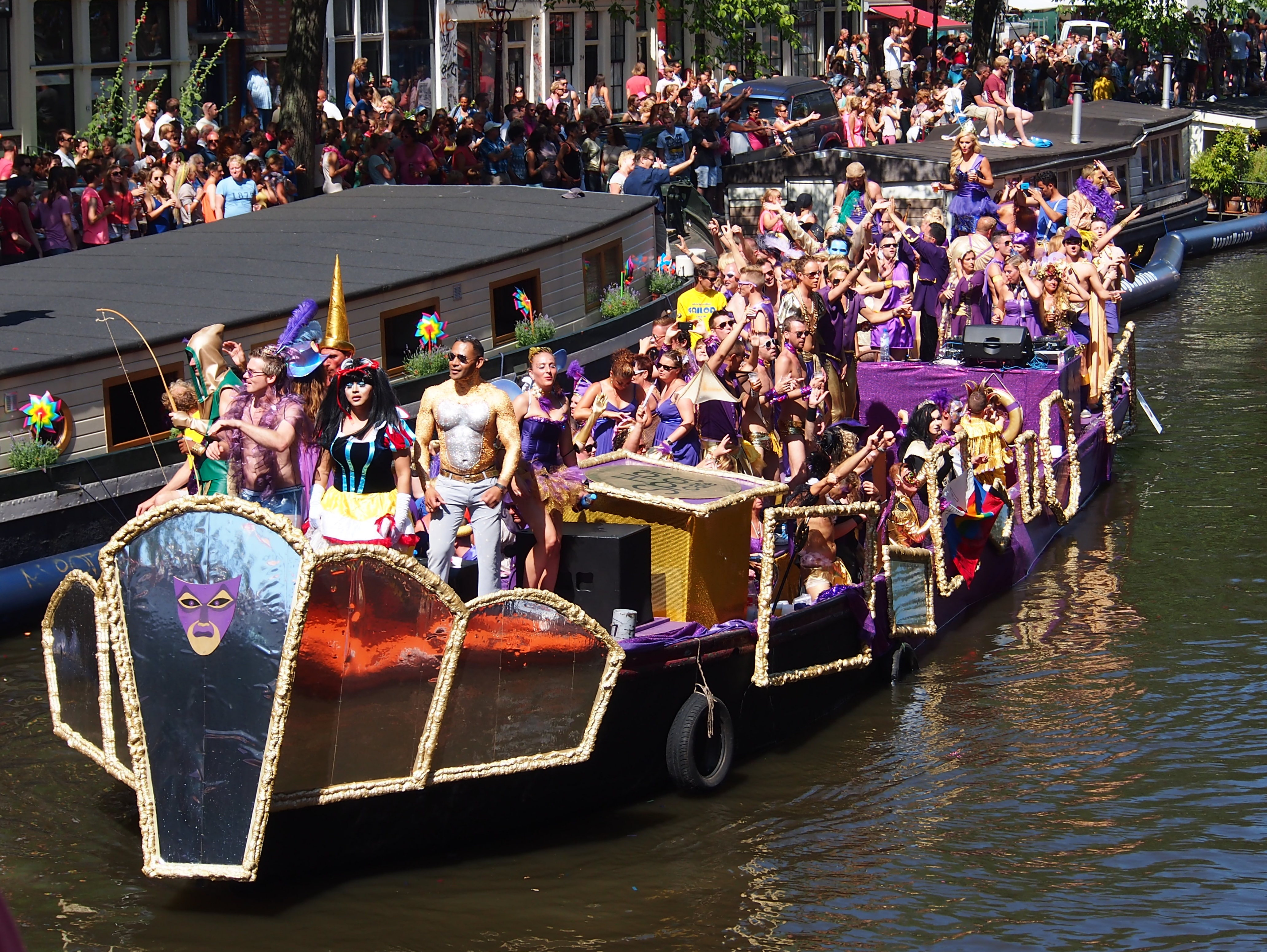 Photographed at the Prinsengracht Amsterdam, the Netherlands.